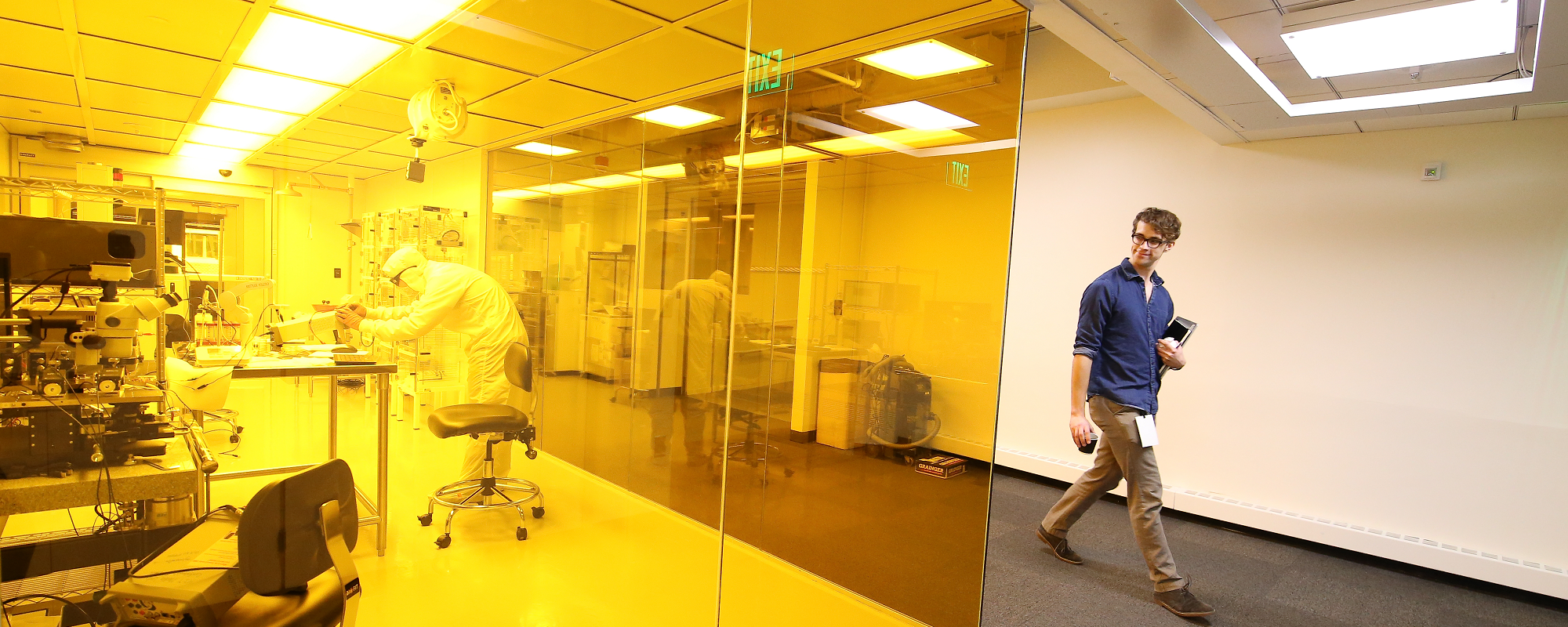 Canan Dagdeviren designed and built her cleanroom, YellowBox, in 2017.